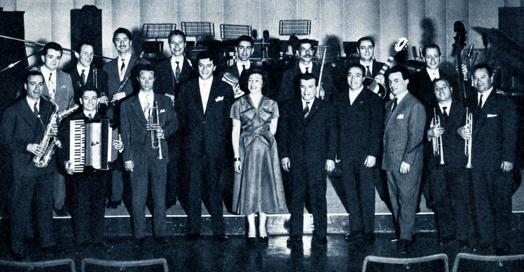 The Angelini Orchestra. Master Cinico Angelini is at the front (fifth from right), with singers Achille Togliani, Carla Boni and Gino Latilla. Guitarist Pino Rucher is at the back (second from right).